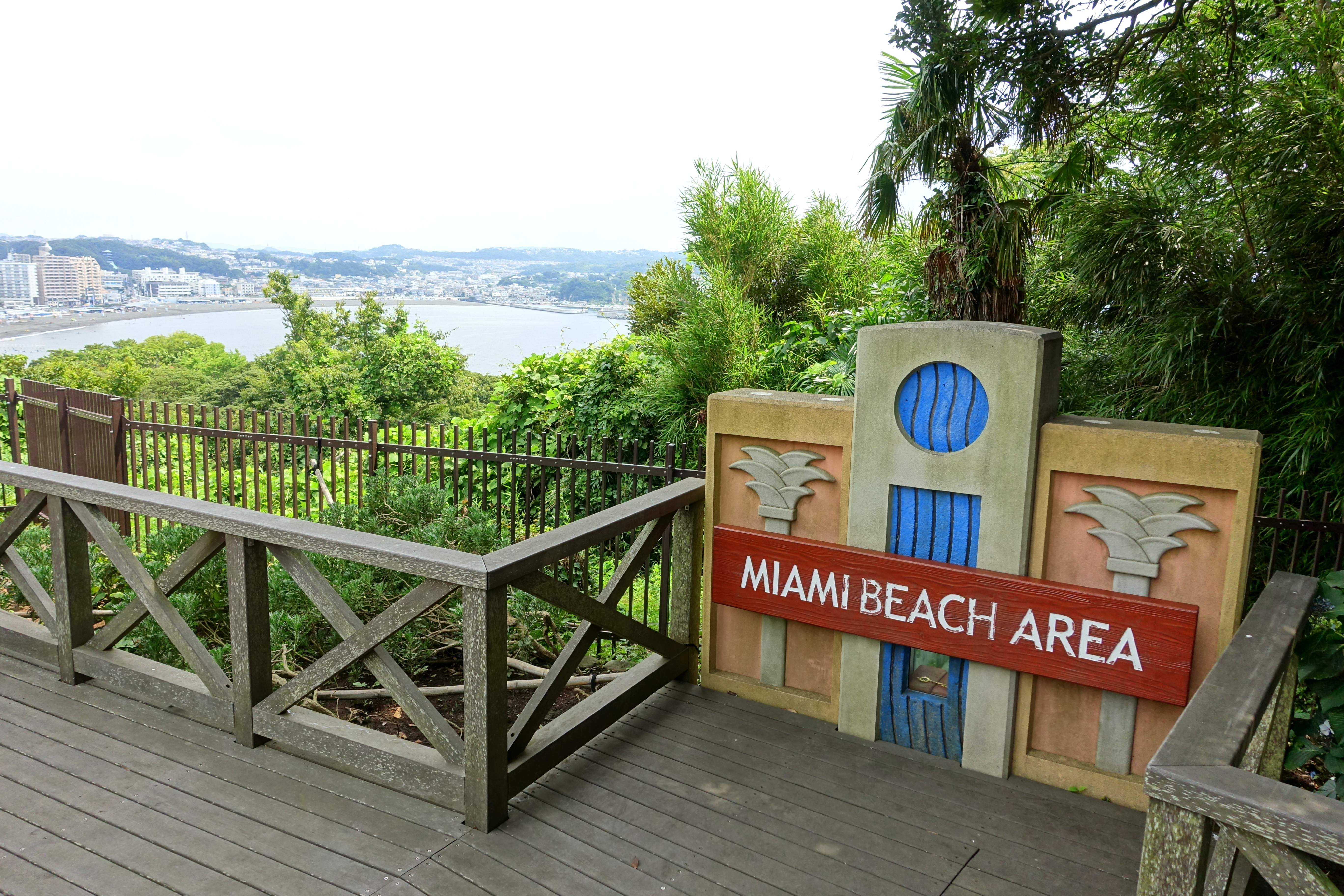 Miami Beach Area - Samuel Cocking Garden - Enoshima, Japan.